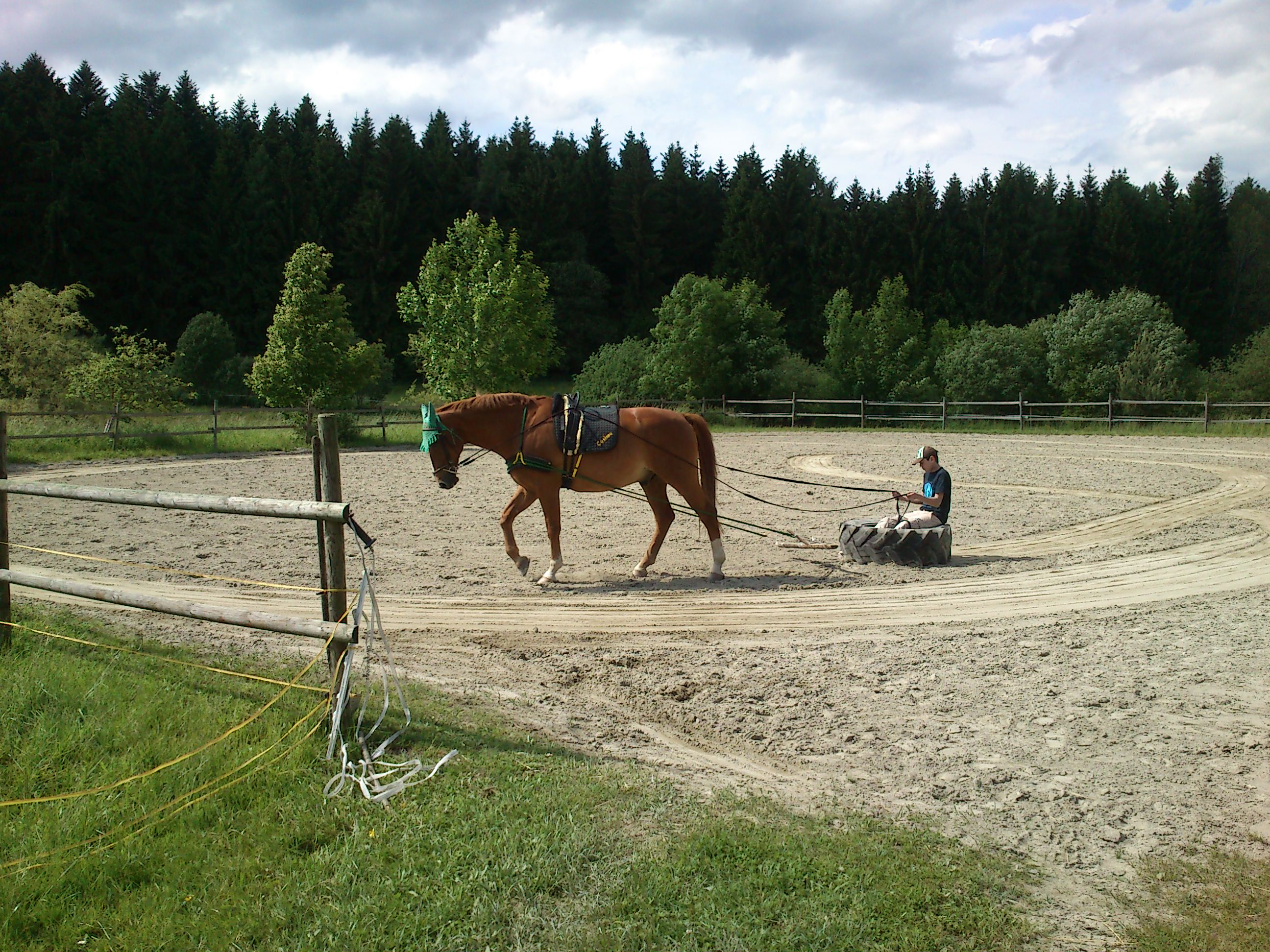 A boy drives a horse sitting on a tractor tyre. Germany 2013, Horse breed Württemberger, gelding